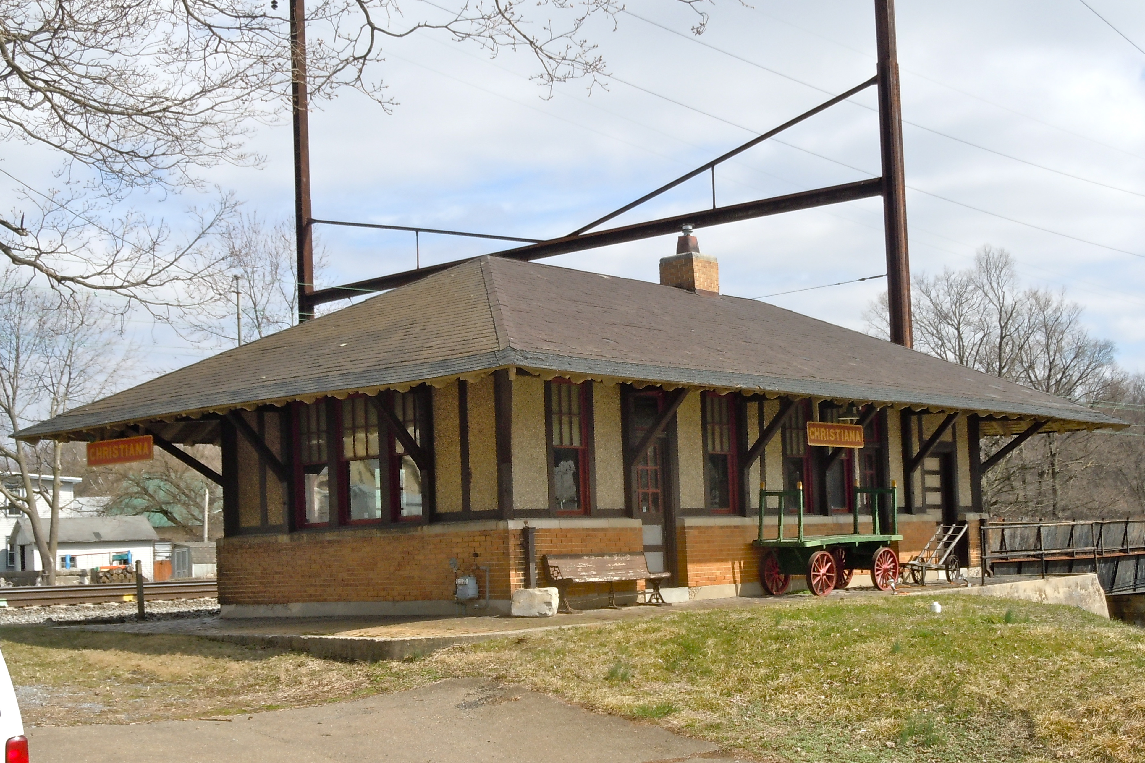 Train station on the old Pennsylvania Railroad tracks (now Amtrak owned) in Christiana, Pennsylvania (eastbound side). No passenger service here now.